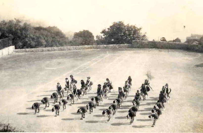 Girls exercising at a boarding school in British India. Original caption: 1935 : Wynberg School, Mussoorie, India. Brenda , and her class, doing leapfrog as exercise. " Can you see me? " wrote Brenda on the back of this snapshot, " I have put a cross there. "